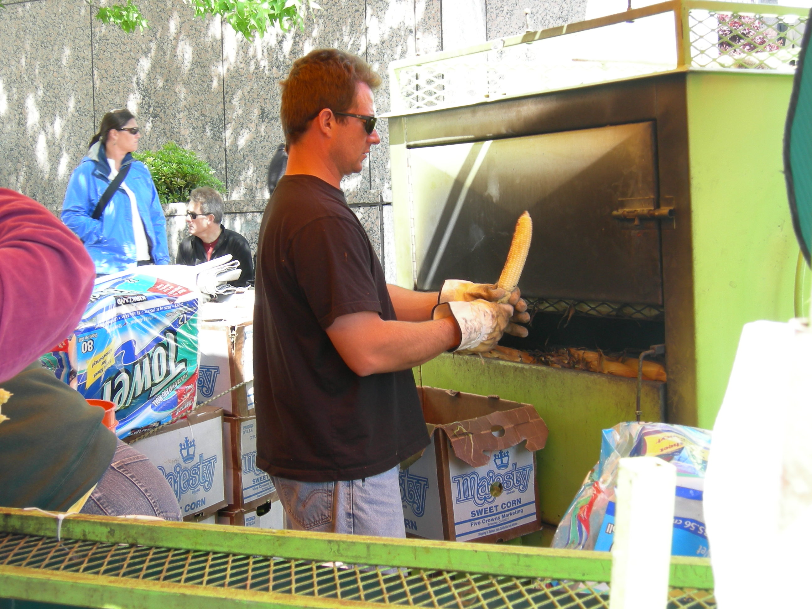 Preparing corn at University District Street Fair, University District, Seattle, Washington.